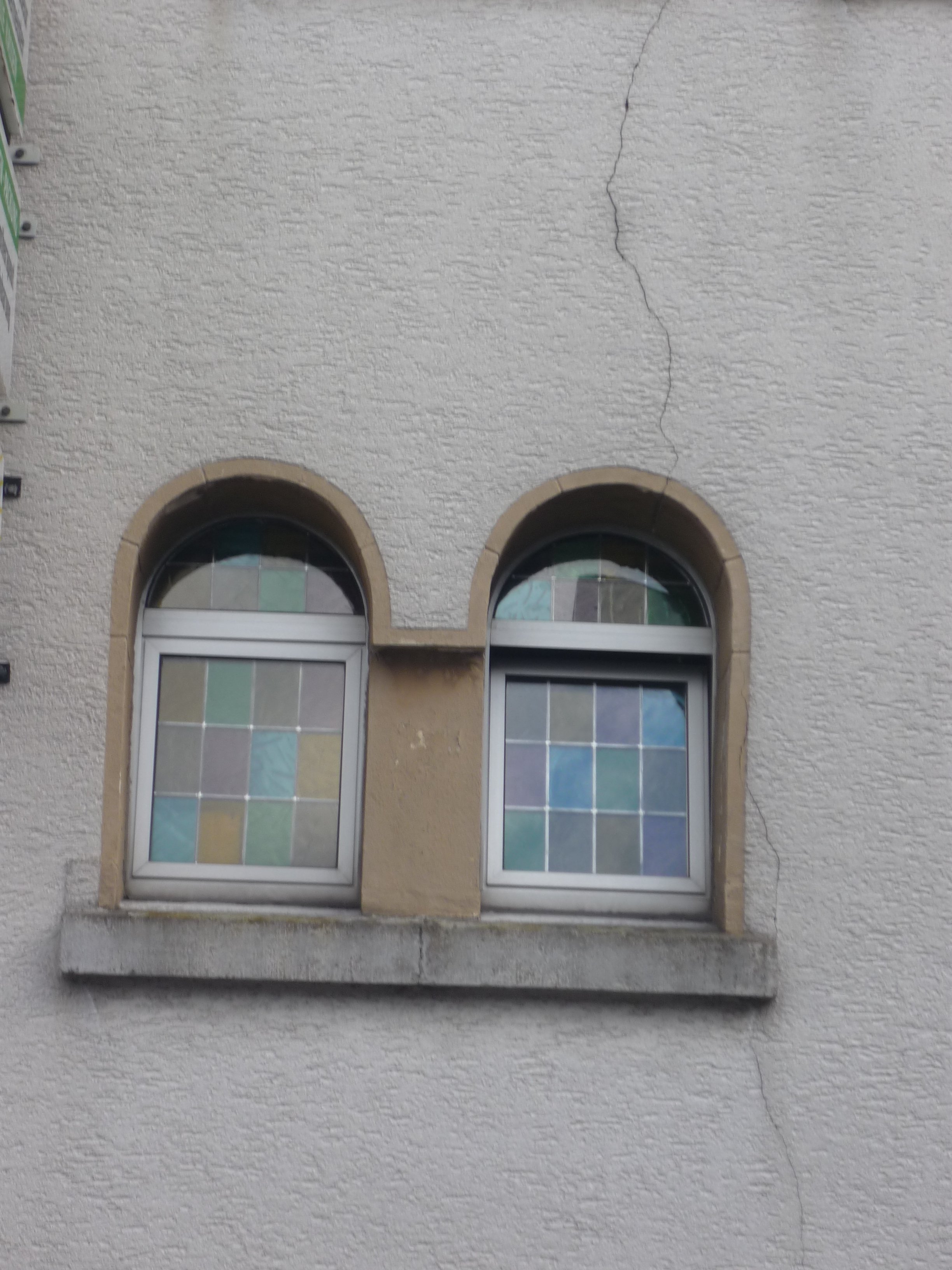 windows of the former Synagogue Westerburg